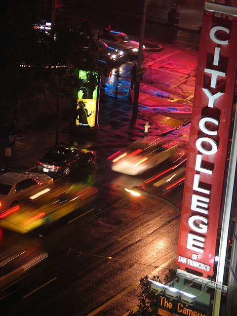 View from The Mosser, South of Market, San Fran